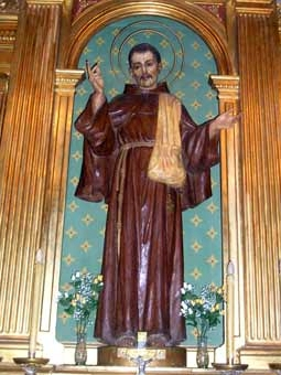 This is a image of Beat Bonaventura Gran in the church of Riudoms, his born village.